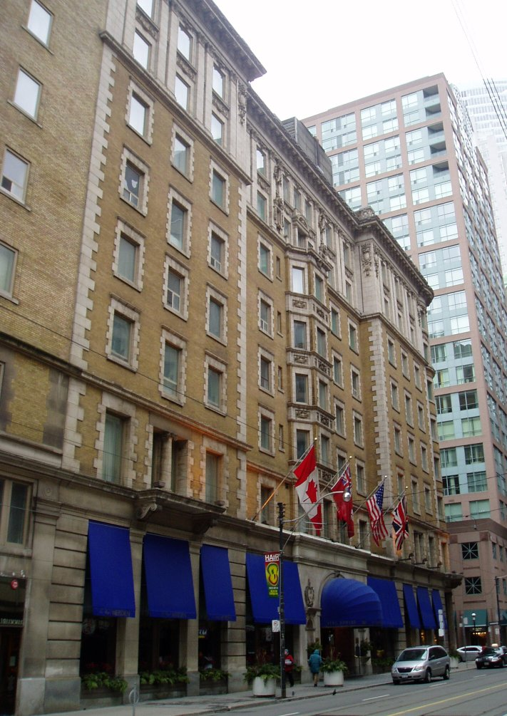 The King Edward Hotel (Toronto), taken by SimonP